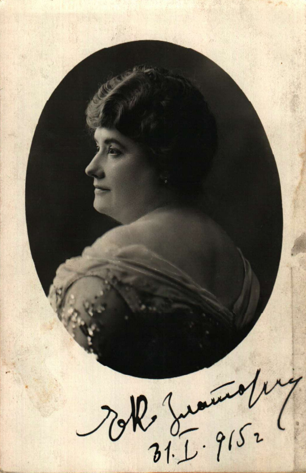 Bulgarian actress Ekaterina Zlatareva (1868-1927)